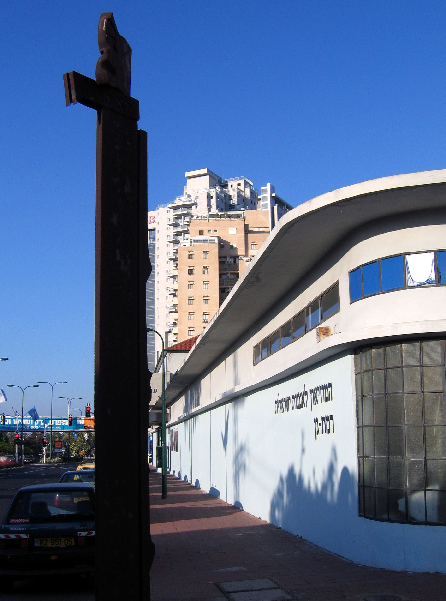 by Yigal Tumarkin neer the Museum of Israeli Art, Ramat Gan